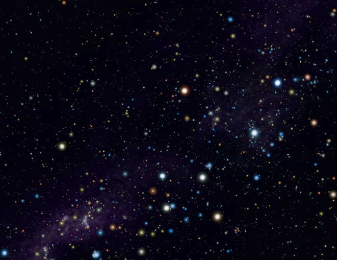 Image of Vela